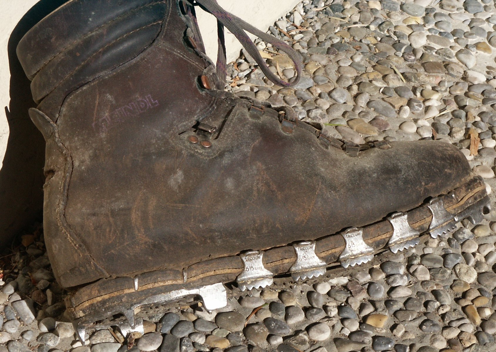 Mountaineering boot with Tricouni cleats. The cleats were formerly manufactured by Tricouni S.A. in Geneva, Switzerland.